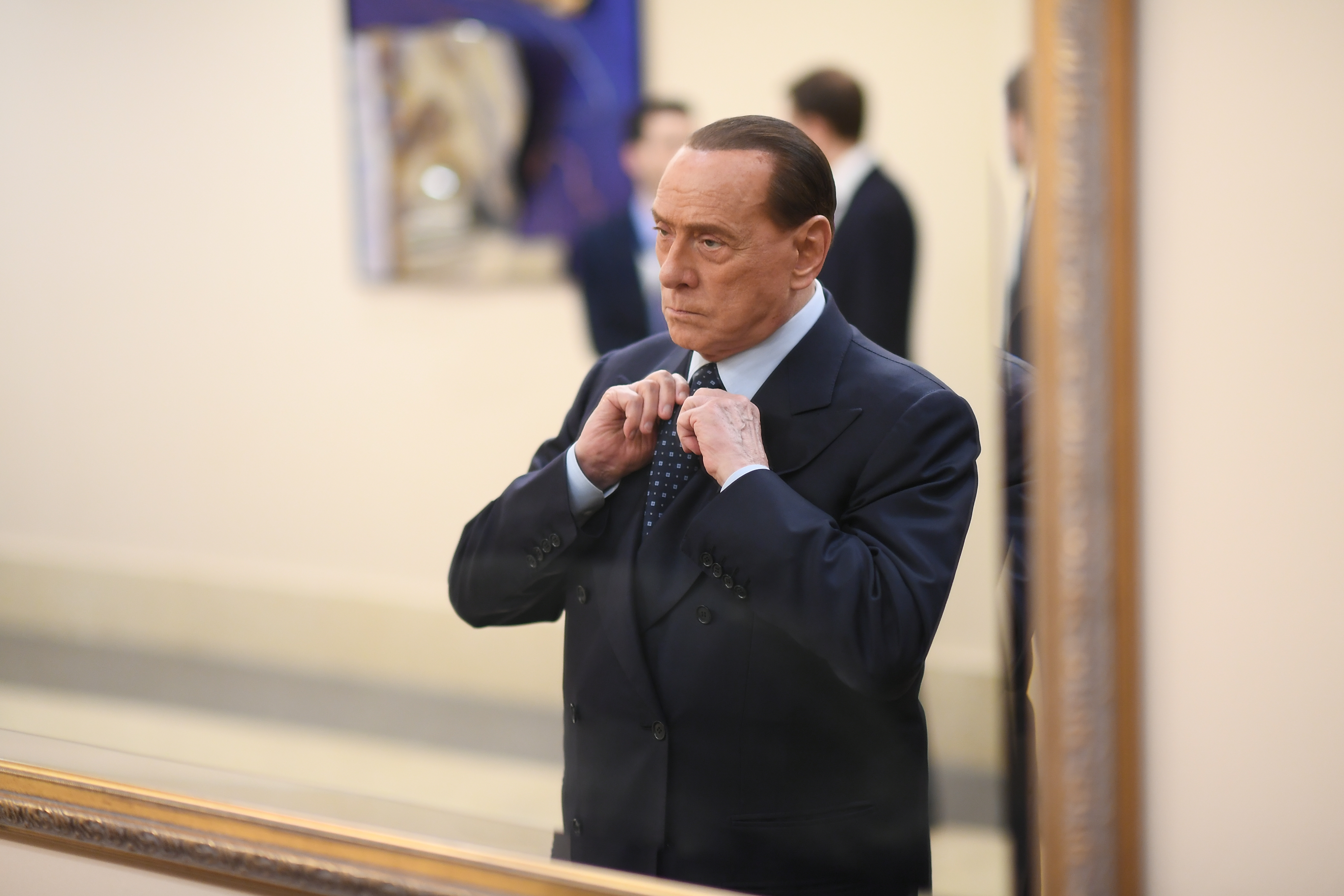 Silvio Berlusconi at EPP Congress in 2017